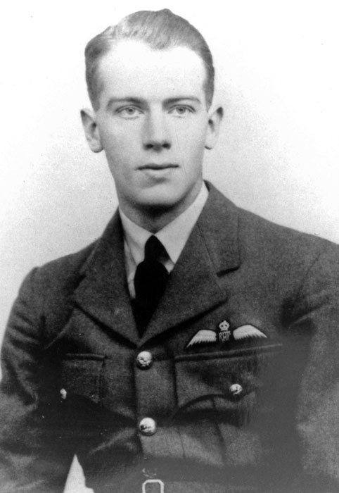 Wartime portrait of Robert Doe, 238 Squadron in uniform.